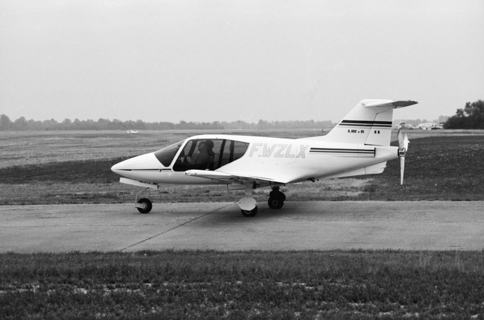 F-WZLX G 802 Grinvald Orion 01